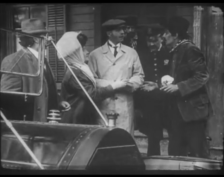 A scene from The Two Roses by the Thanhouser Company. Tony is arrested by the police detective for carrying the white rose and being in wrong place at the wrong time. Falsely believed to be "The Black Hand" man, the real culprit peeks out from the door.